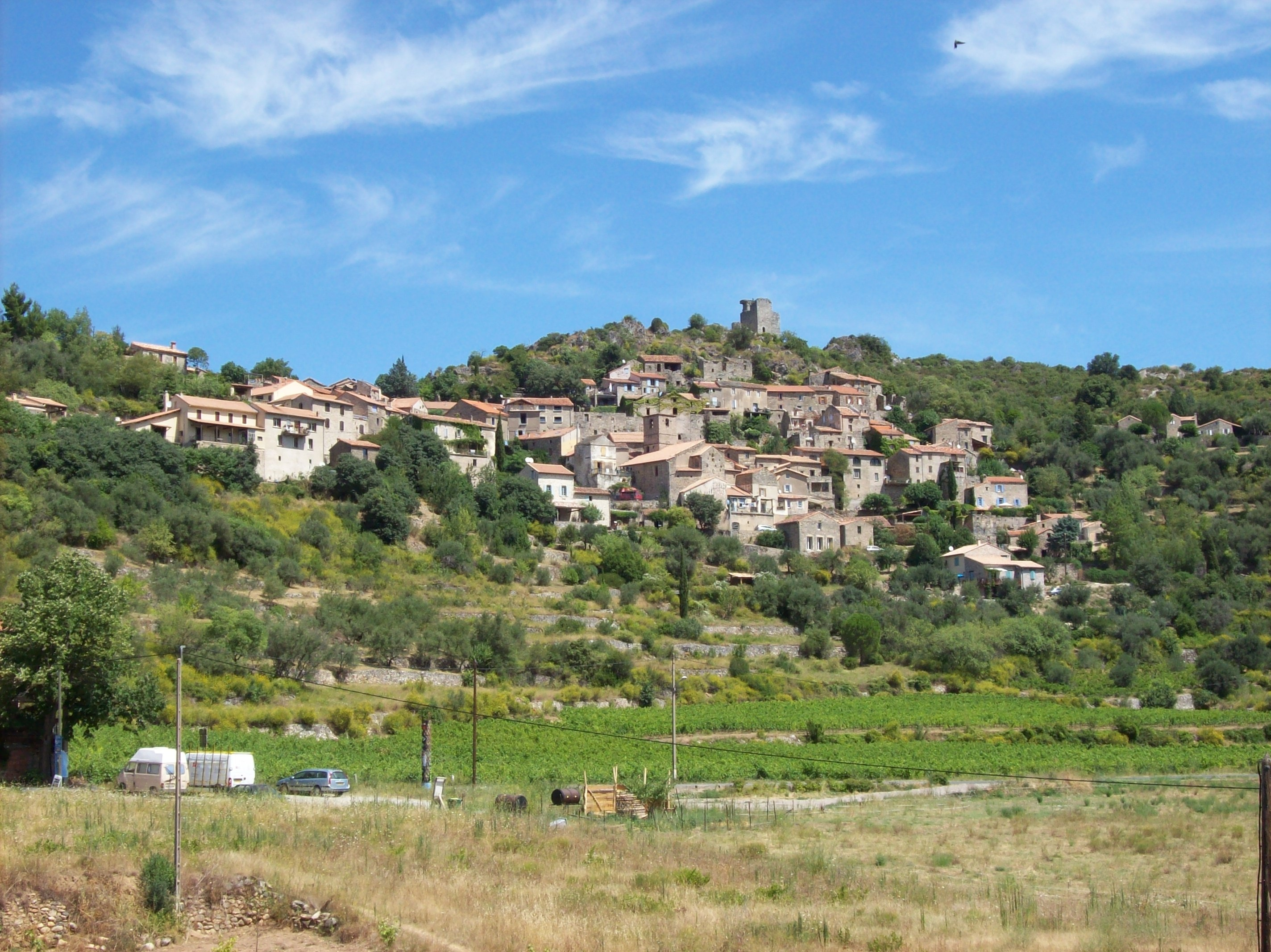 Vieussan, Hérault, France.